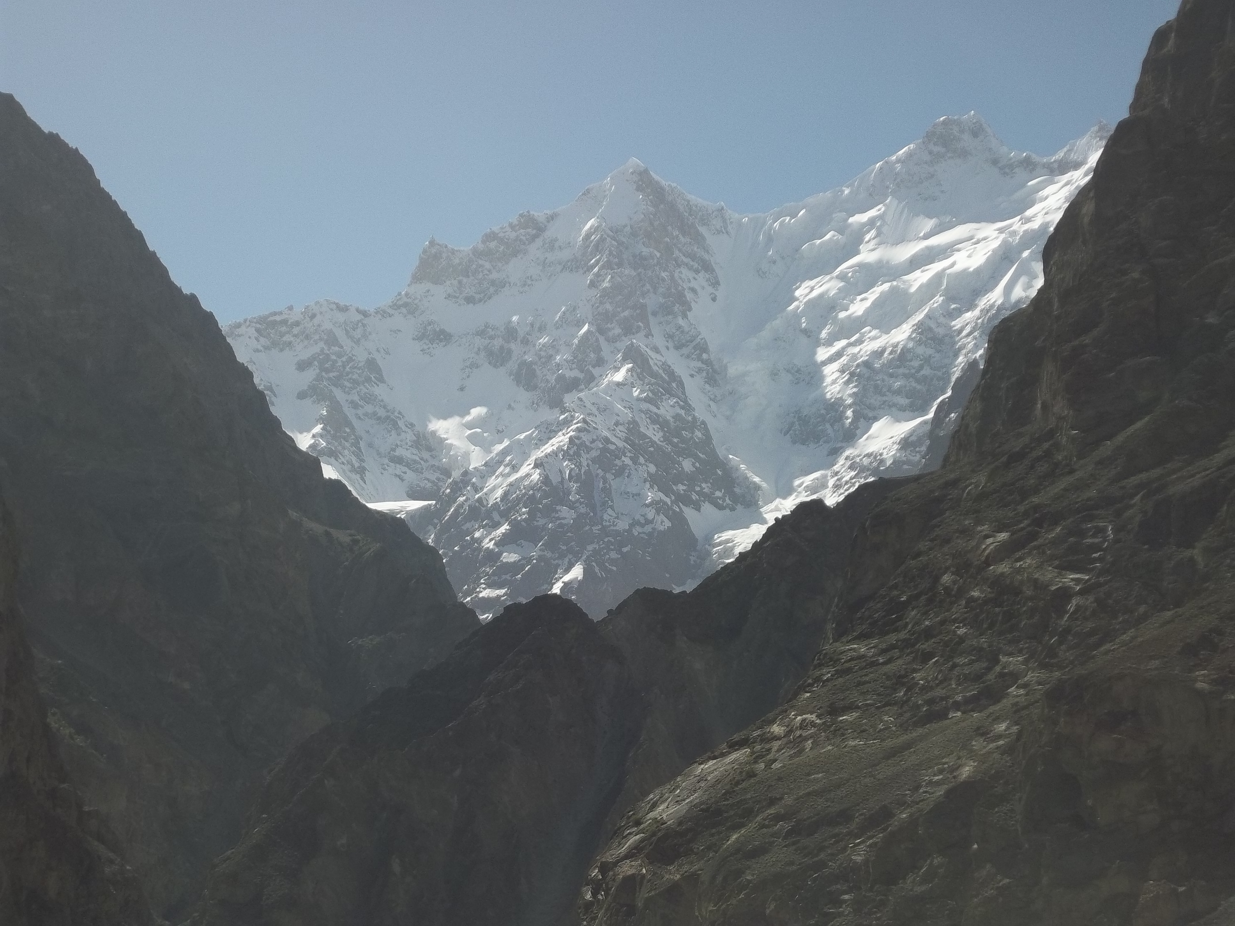 Chitral Pakistan